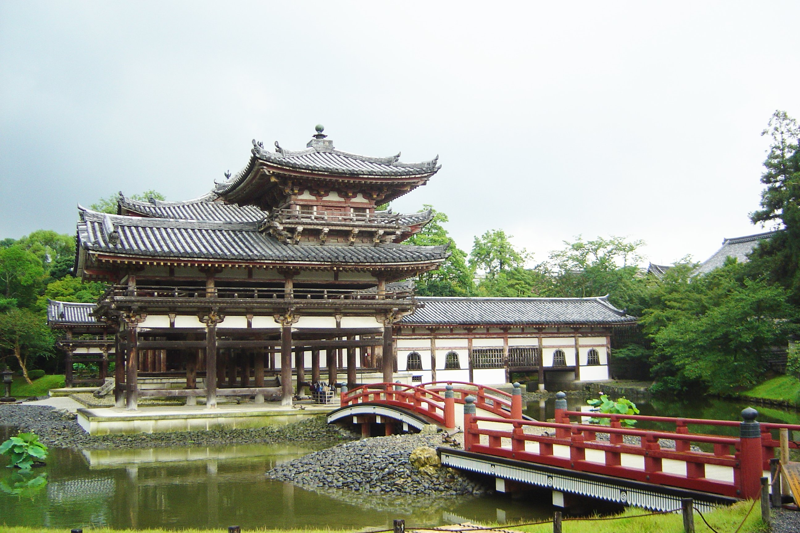 Byodoin in Uji, Japan